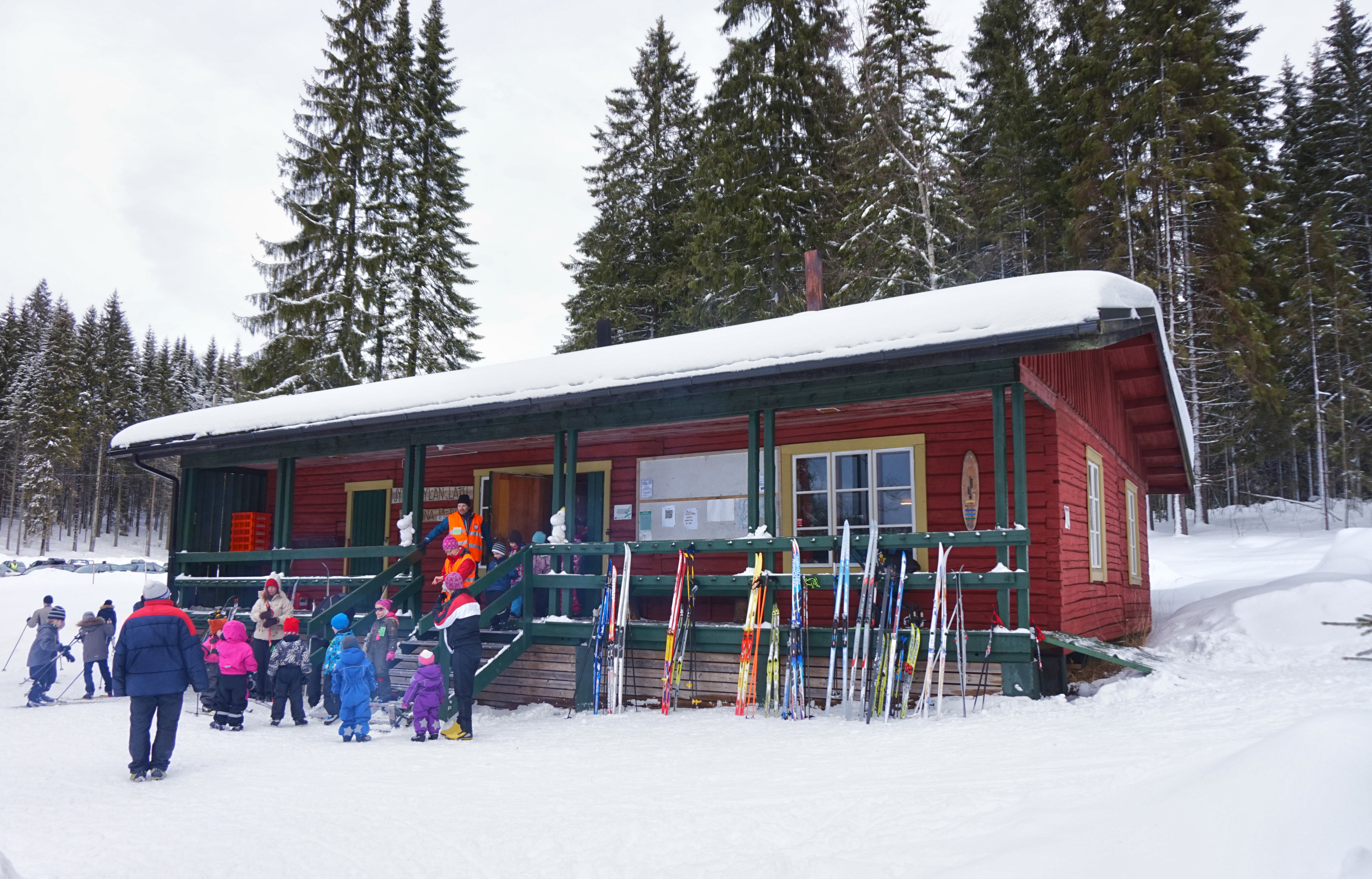 Ladun Maja building in Jyväskylä.